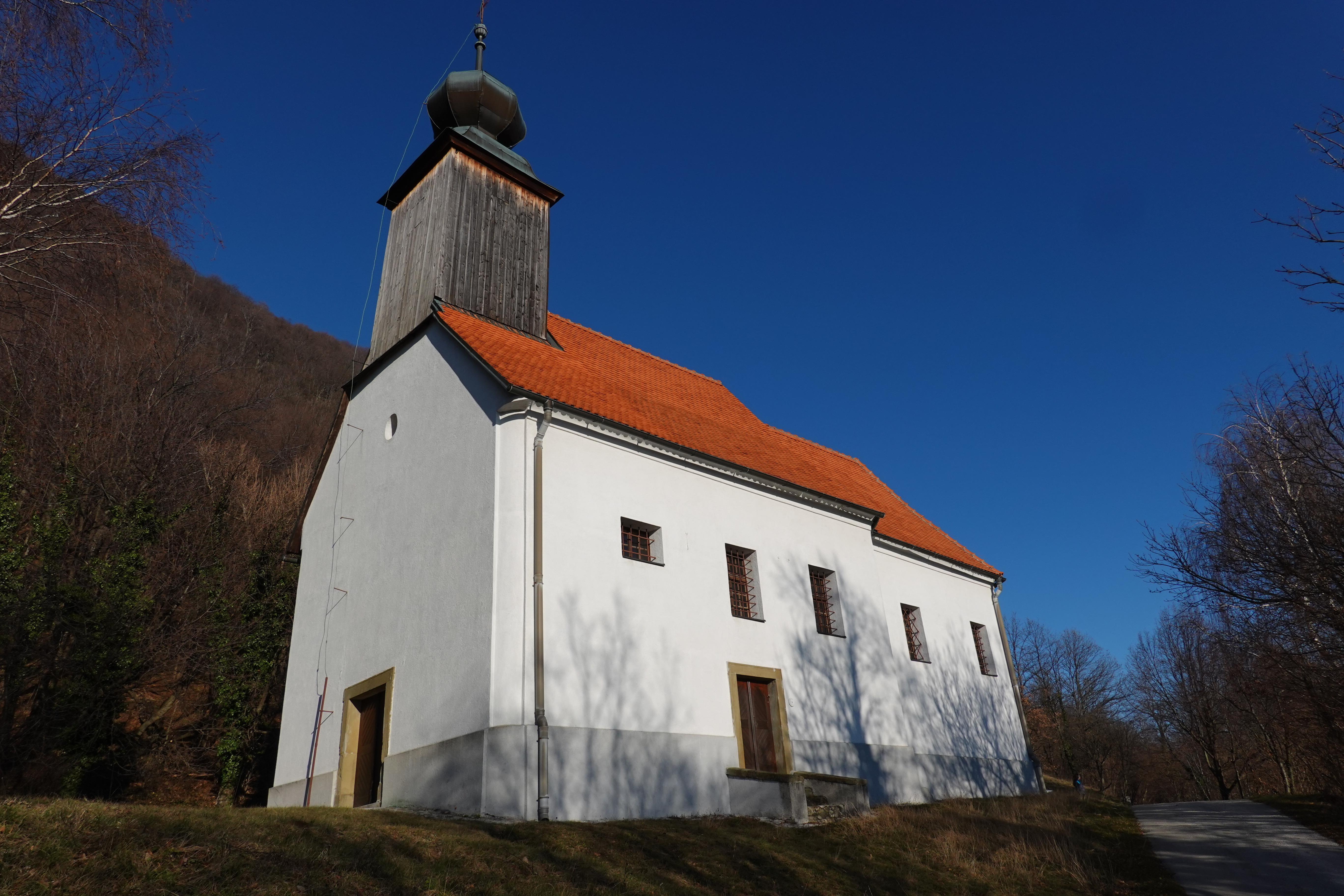 St. Donatus' Church (Donačka Gora)